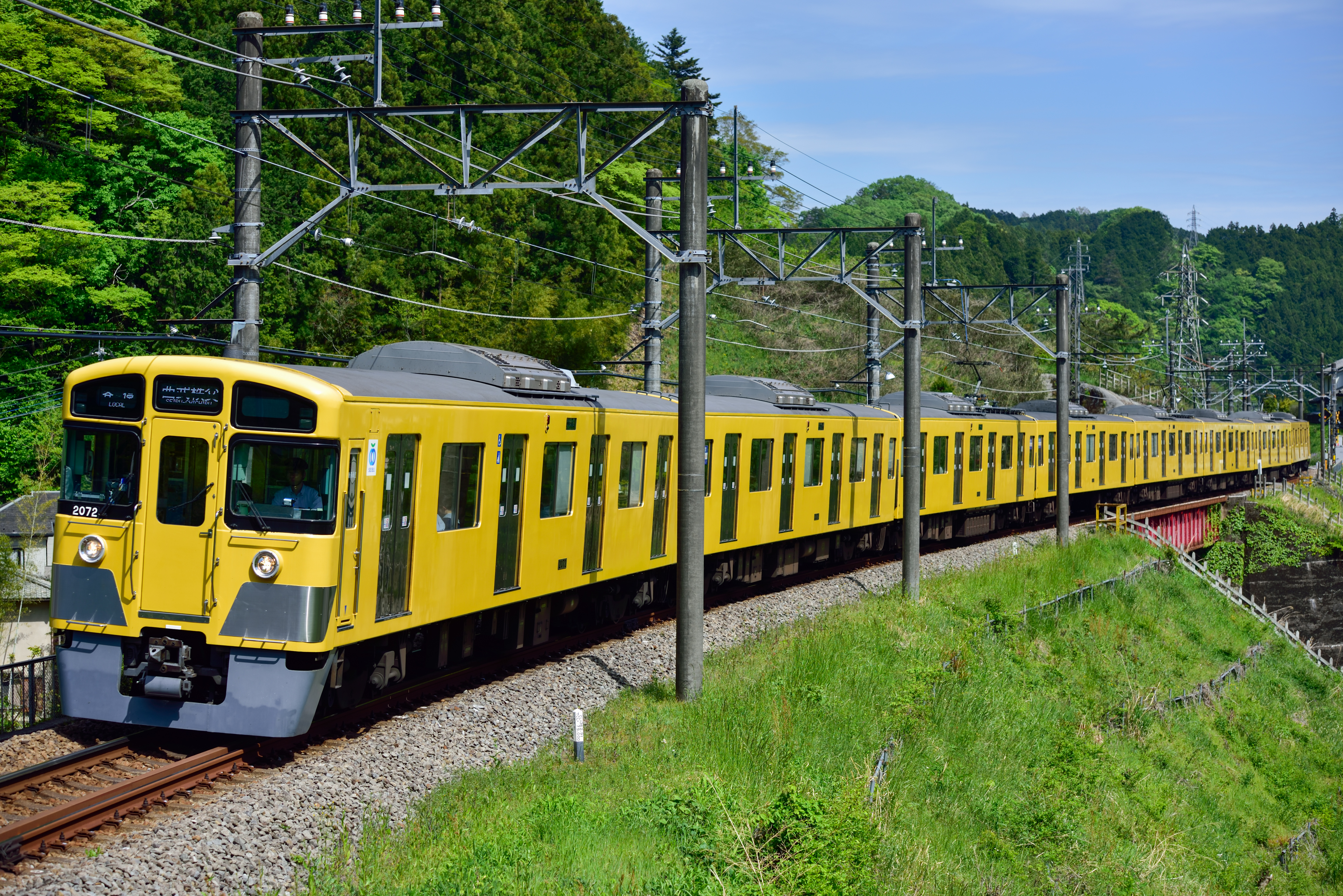 A refurbished Seibu Railway 2000 series EMU on the Seibu Ikebukuro Line between Agano and Higashi-Agano stations